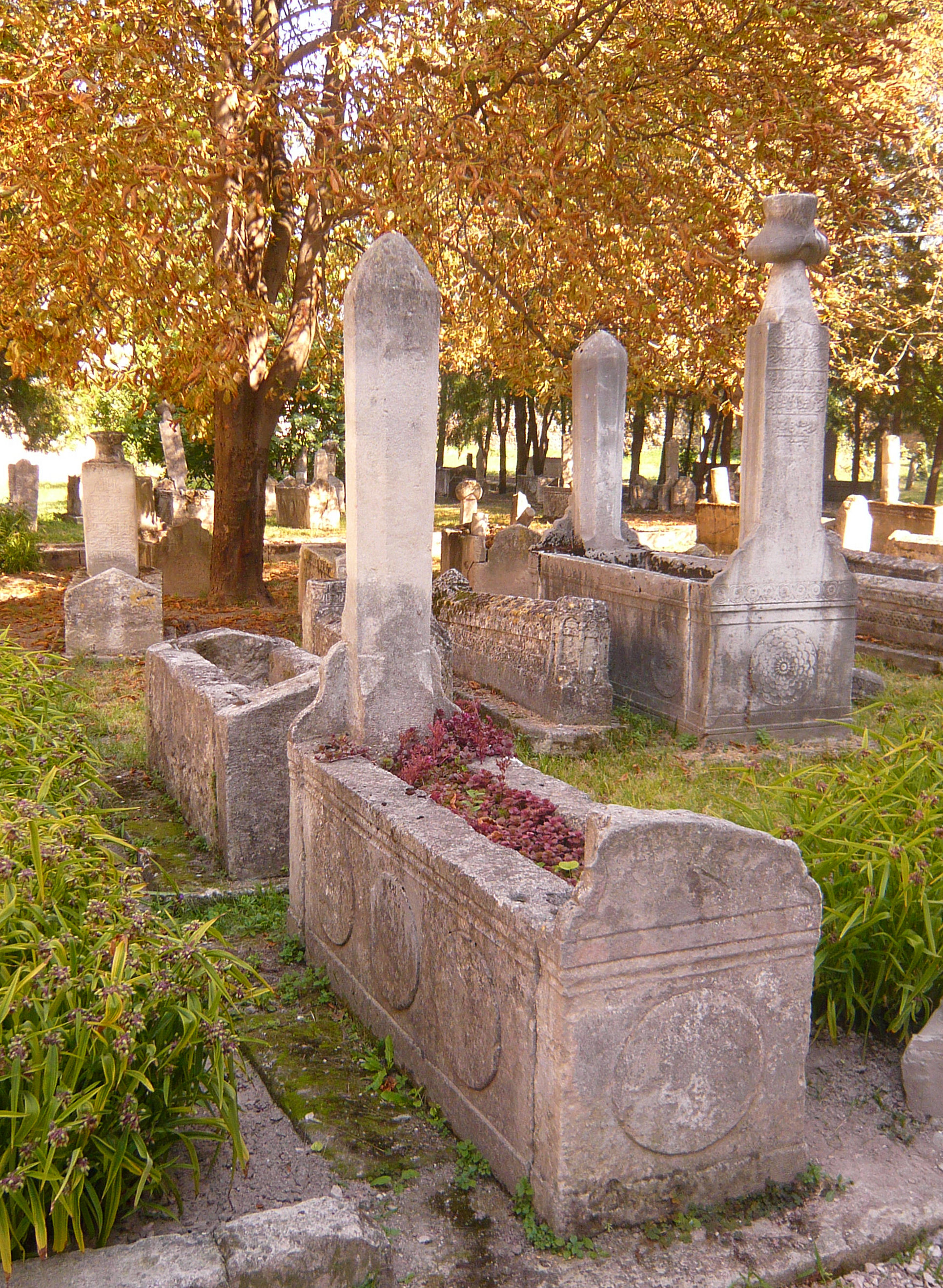 Khans cemetery in Bakhchisaray Palace